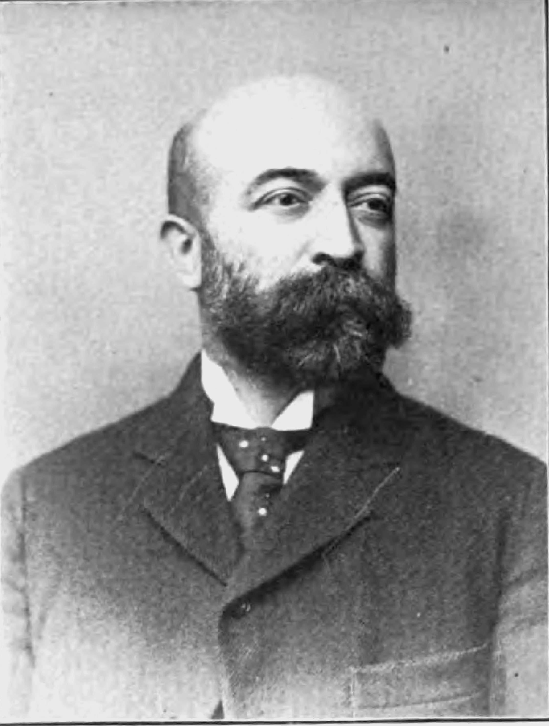 Edward Livermore Burlingame (born in Boston on 30 May 1848; died in New York City on 15 November 1922) was a United States writer and editor.